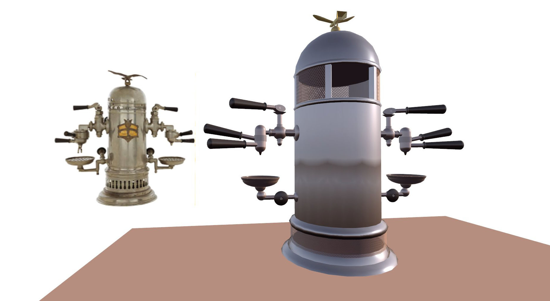 Venus Century 3D Design 1905-2005 : espresso machine, limited edition